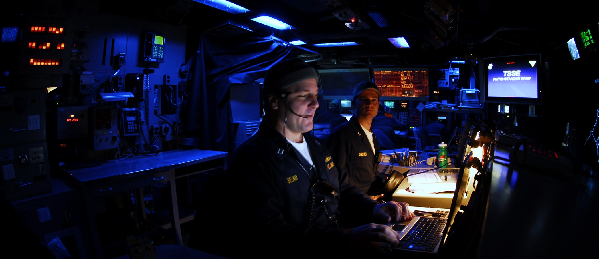 PACIFIC OCEAN (Feb. 26, 2009) Lt. Jon Bielar, left, from San Diego, and tactical action officer Lt. Paul O'Brien, from Chesapeake, Va., call general quarters from inside the combat information center during the total ship's survivability exercise aboard the Ticonderoga-class guided-missile cruiser USS Antietam (CG 54). Antietam is part of the John C. Stennis Carrier Strike Group on a scheduled six-month deployment to the western Pacific Ocean. (U.S. Navy photo by Mass Communication Specialist 3rd Class Walter M. Wayman/Released)